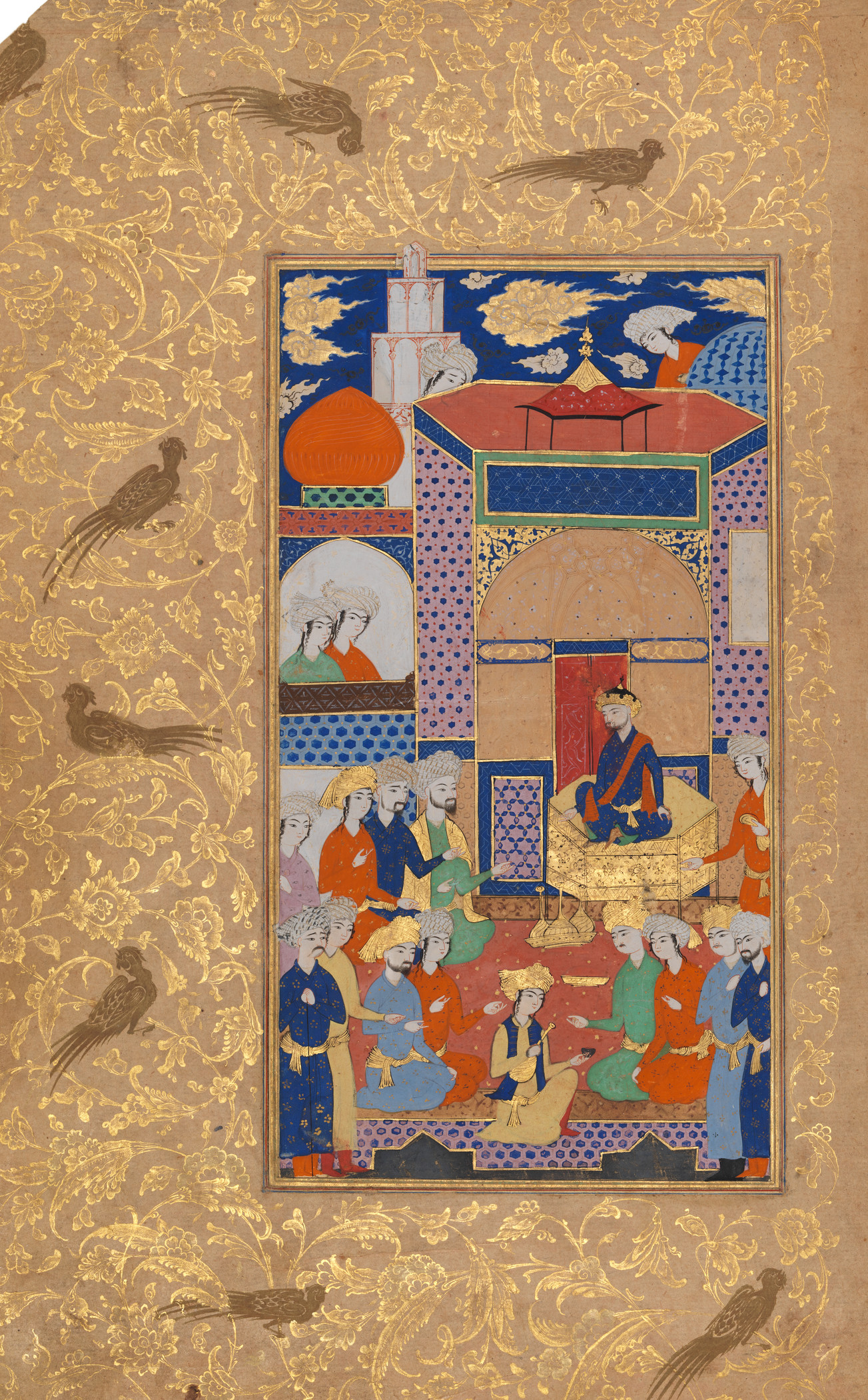 Iran, Qazvin or Isfahan, 1625 Manuscripts Ink, opaque watercolor and gold on paper The Nasli M. Heeramaneck Collection, gift of Joan Palevsky (M.73.5.445) Islamic Art